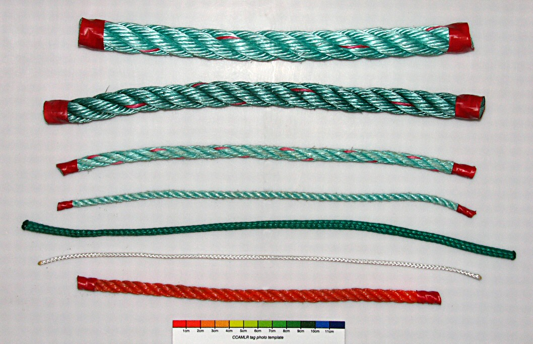 Set of ropes, cords and lines used for equipping of Spanish (double) bottom longline